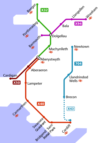 Traws Cambria Bus network map